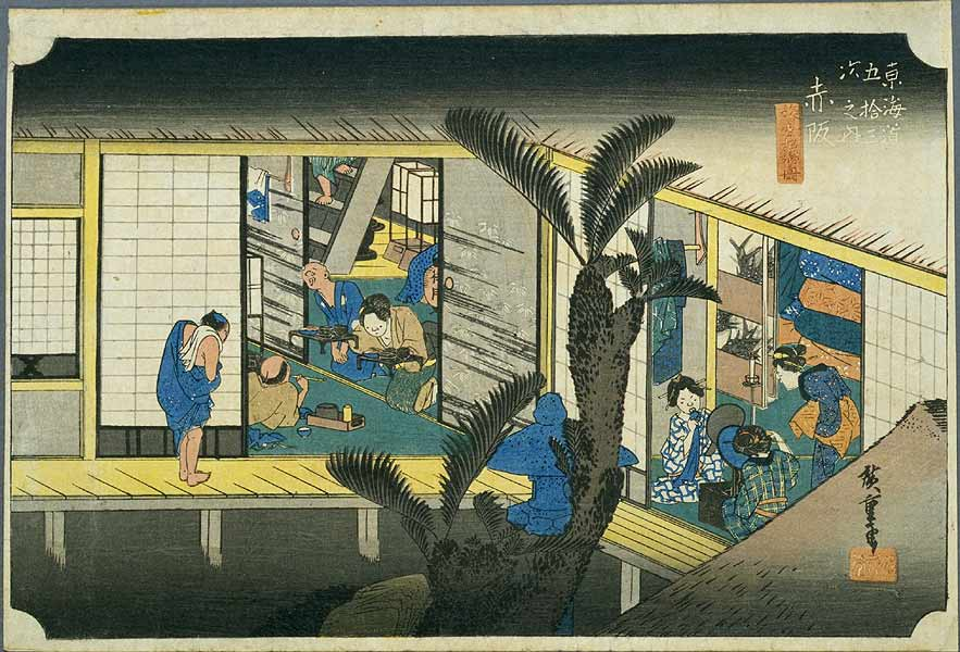 Akasaka on the Tokaido, ukiyo-e prints by Hiroshige